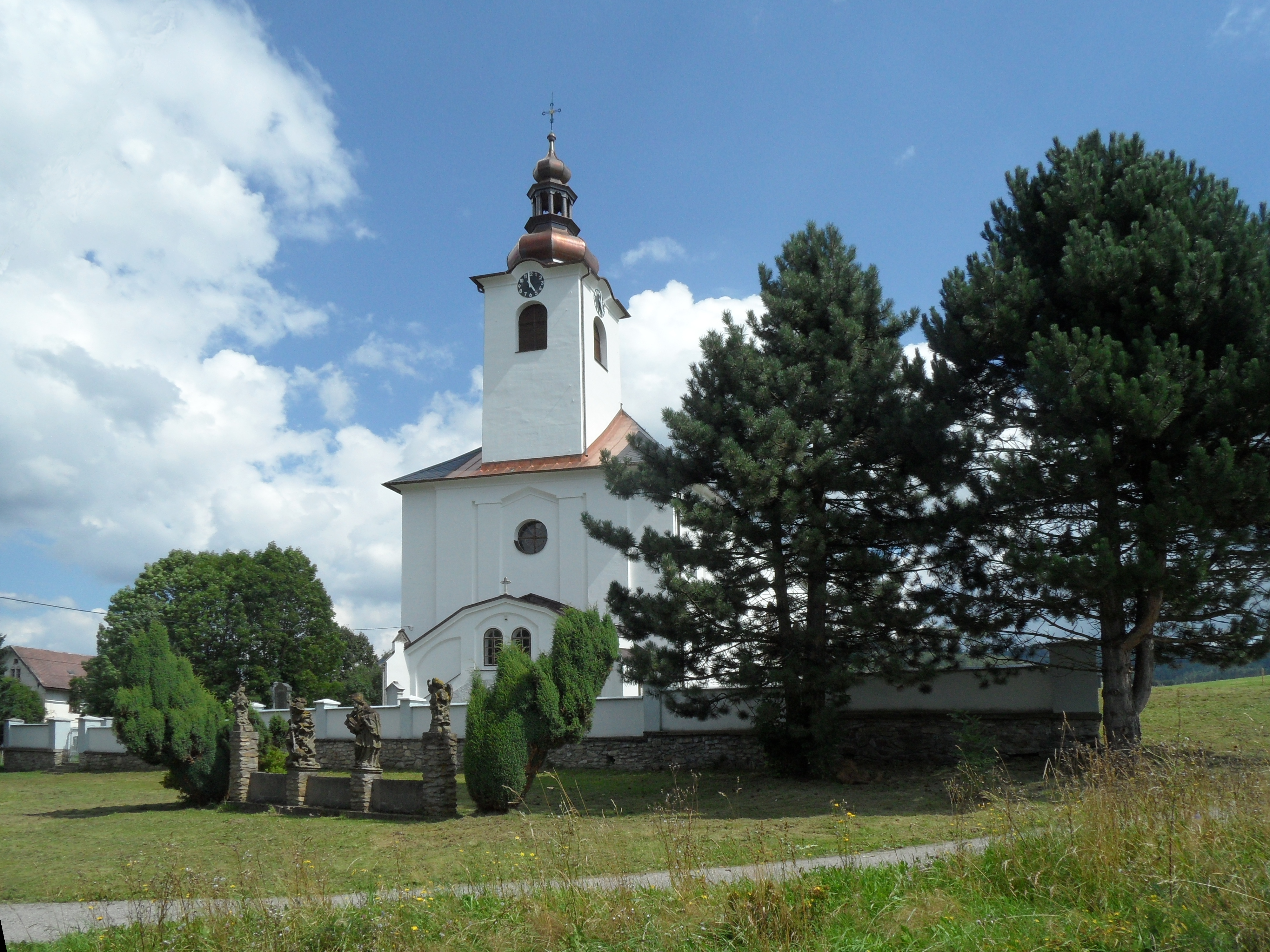 Dolní Morava F. Church of Saint Alois with Surroundings, Ústí nad Orlicí District, the Czech Republic.